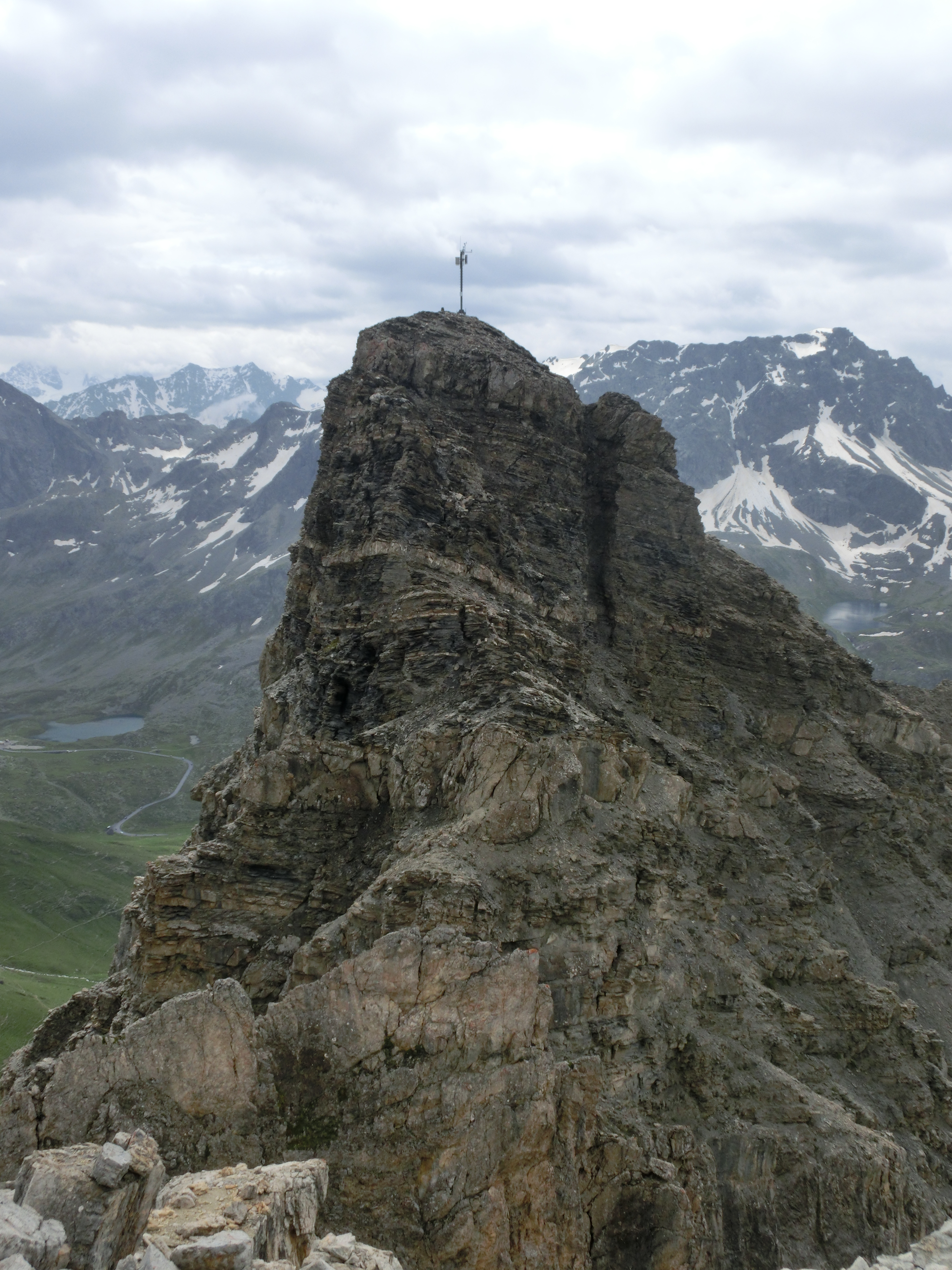 Piz Bardella, picture taken from its northern peak, Bivio, Grison, Switzerland